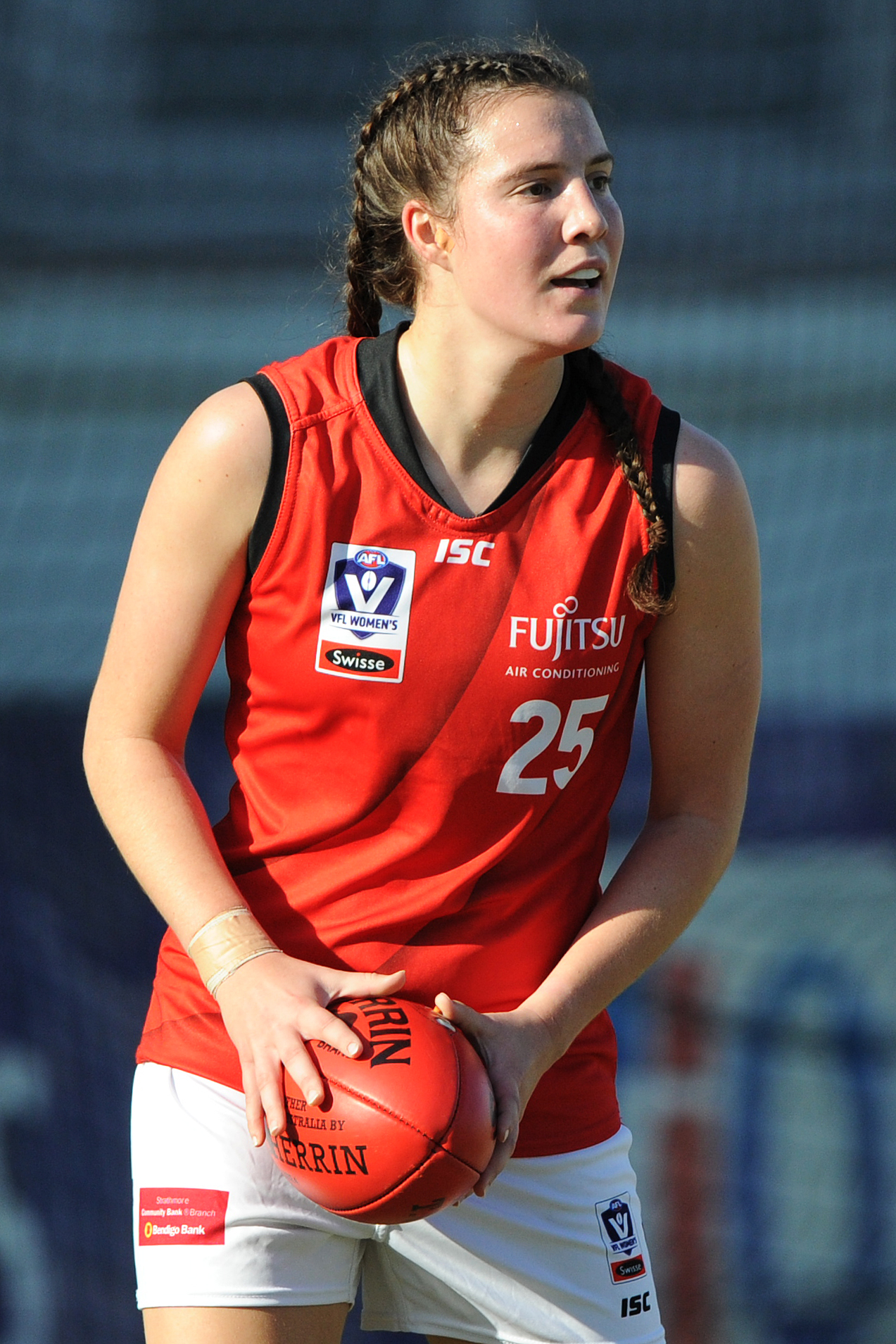 Rebecca Neaves of Essendon during the 2018 VFLW round 3 match between NT Thunder and Essendon at TIO Stadium on Saturday, 19 May 2018 in Darwin, Australia.